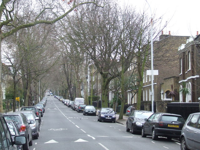 Camberwell Grove, SE5 Looking southwards up Camberwell Grove.